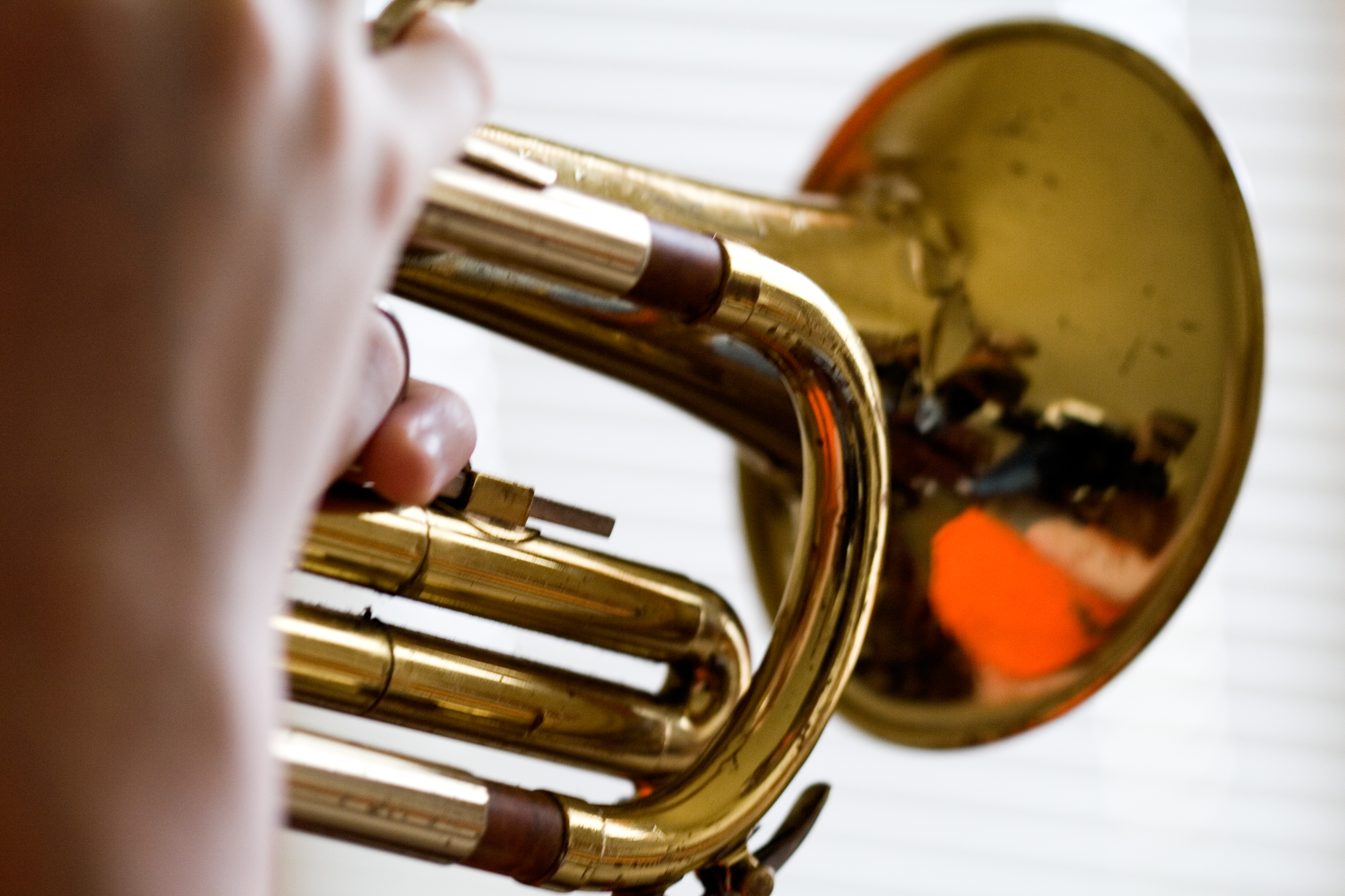 A boy playing a cornet.